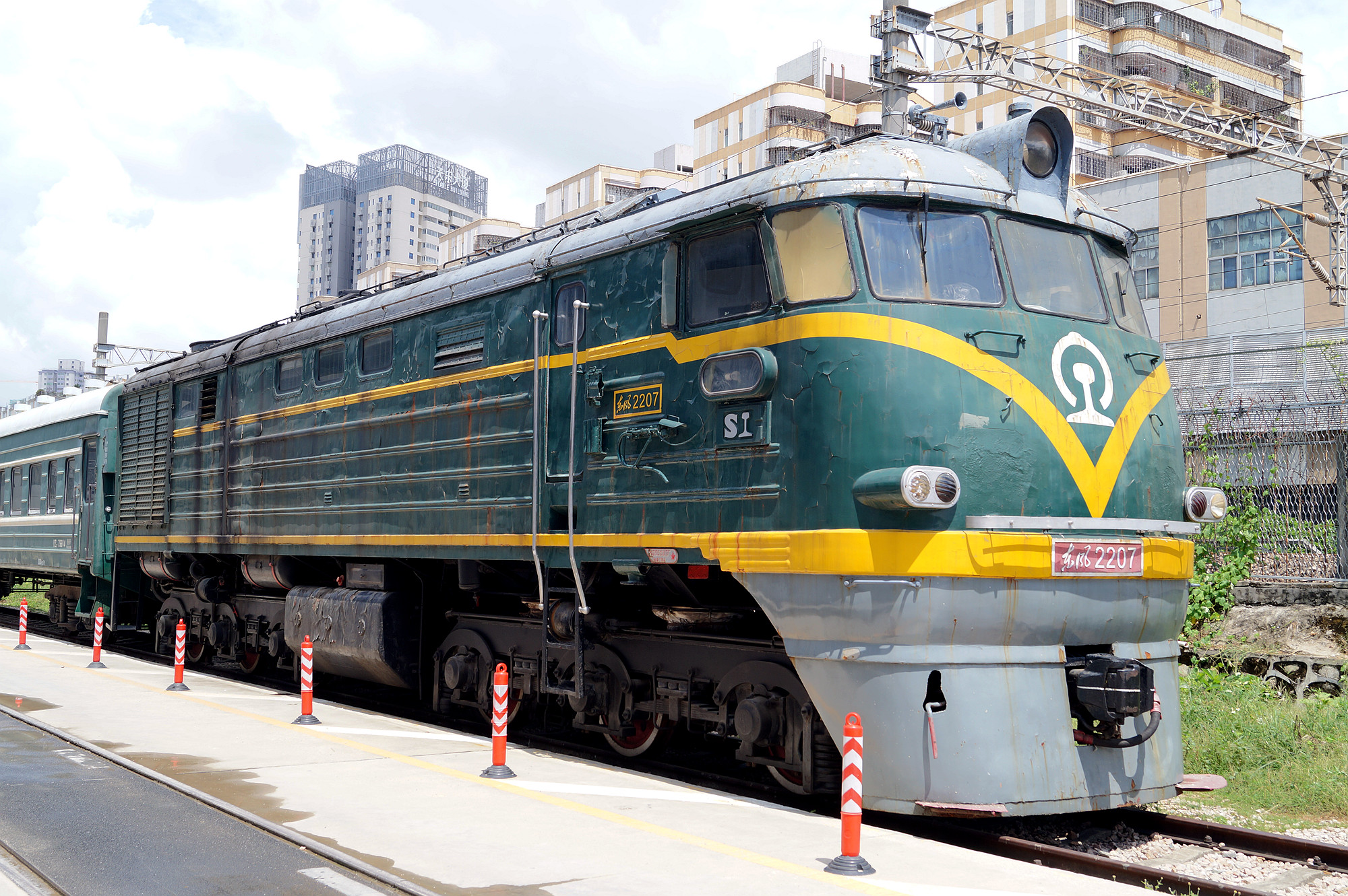 China Railways DF2207 diesel locomotive displayed Luohu District, Shenzhen.